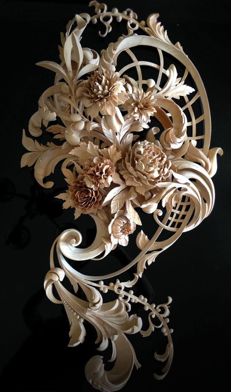 2015 Object de-Art made from wood by Russian-American Master Woodcarver Alexander A. Grabovetskiy. This wood carving work won the award as best in Object de Art made out of wood